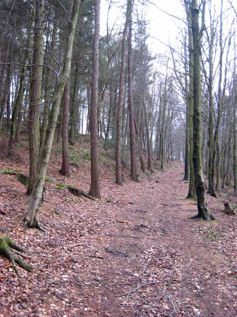 Footpath through Rag Path Wood, near Esh Winning